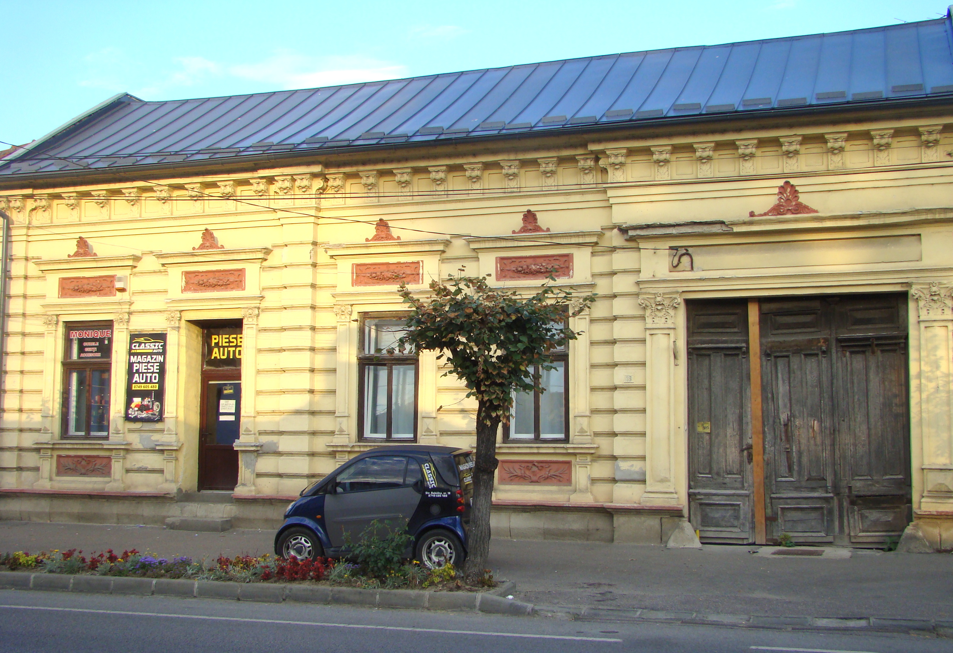 House, historic monument in Gherla, Bobâlna street 16